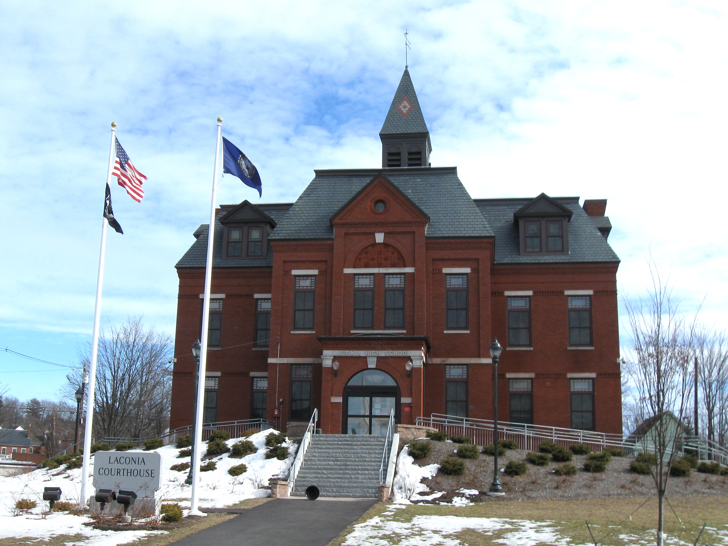 Laconia District Court — on Academy Square in Laconia, Belknap County, New Hampshire. The tall brick building is on the National Register of Historic Places. Photo by Ken Gallager, February 15, 2010.